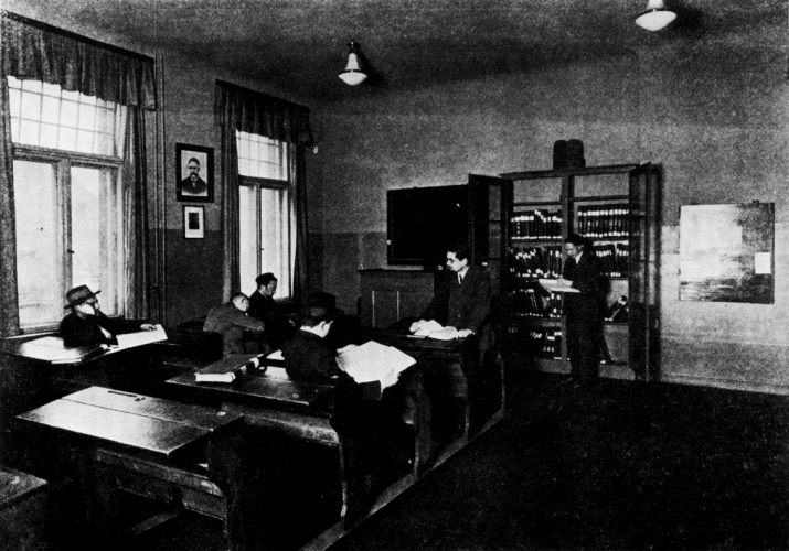 For Берлинская Раввинистическая Семинария, site of Adass Jisroel society says that the picture commemorates 25 years of Rabbinical Seminary, which opened at 1873, that is the picture taken in 1898, before 112 years and two world wars.